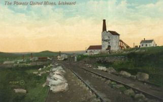 View of Phoenix Mine and track of Liskeard and Caradon Railway from an old postcard